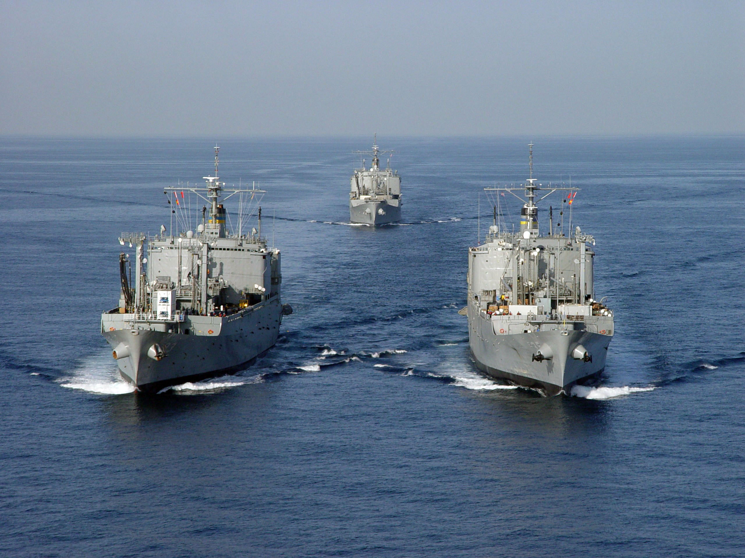 The U.S. Military Sealift Command (MSC) ammunition ships USNS Shasta (T-AE-33), left, USNS Flint (T-AE-32), center, and USNS Kiska (T-AE-35) steam together in the Sea of Japan on 11 November 2005, following a crossdeck evolution that moved approximately 1,500 pallets of ordnance between the ships. While operating in U.S. 7th Fleet, MSC combat logistics force ships, which included oilers, fast combat support ships, as well as ammunition ships, operated as part of Task Force 73 (TF 73) the fleet's logistics task force.